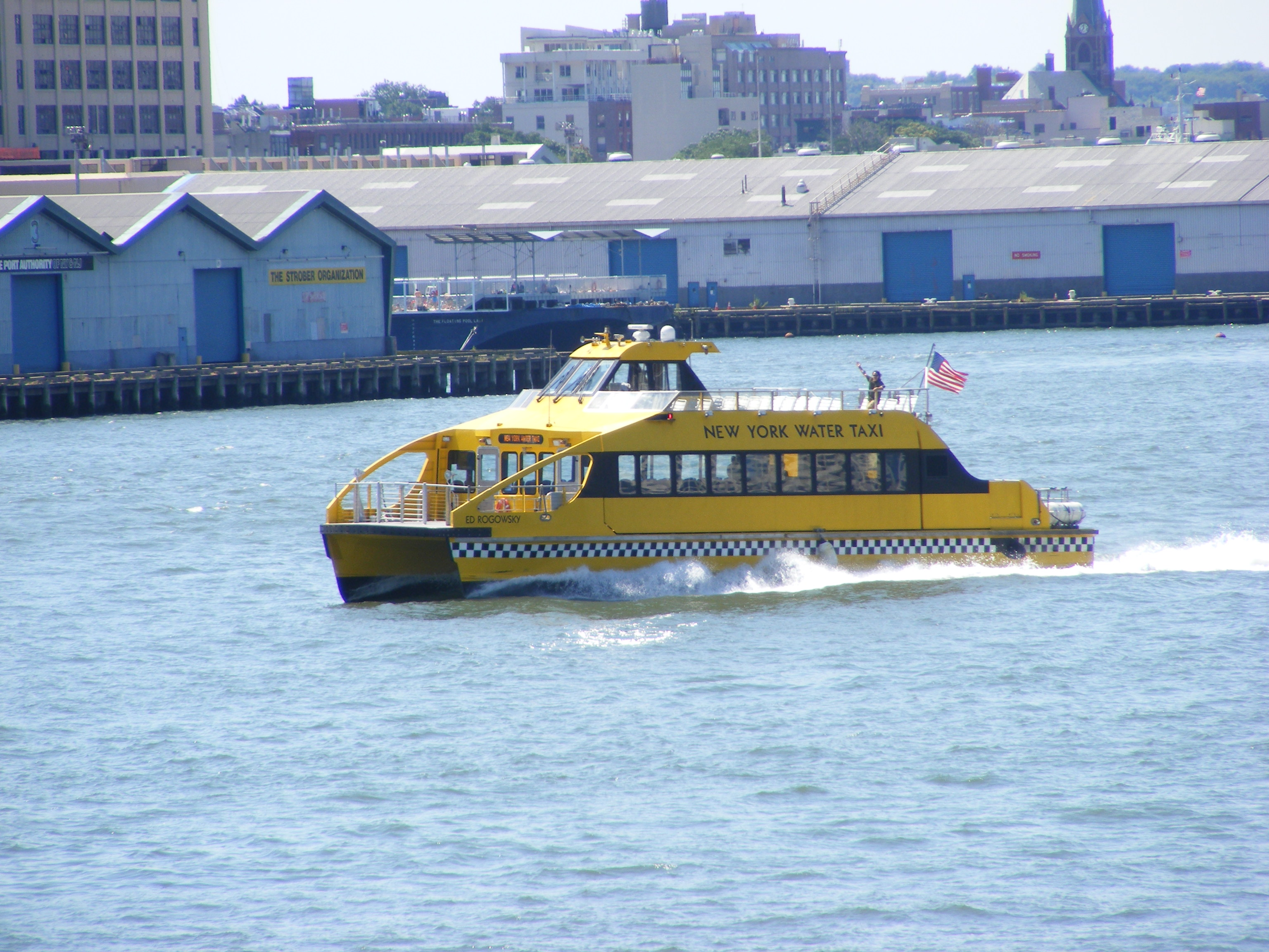 New York Water Taxi vessel Ed Rogowsky on the East River near Brooklyn Heights, Brooklyn.